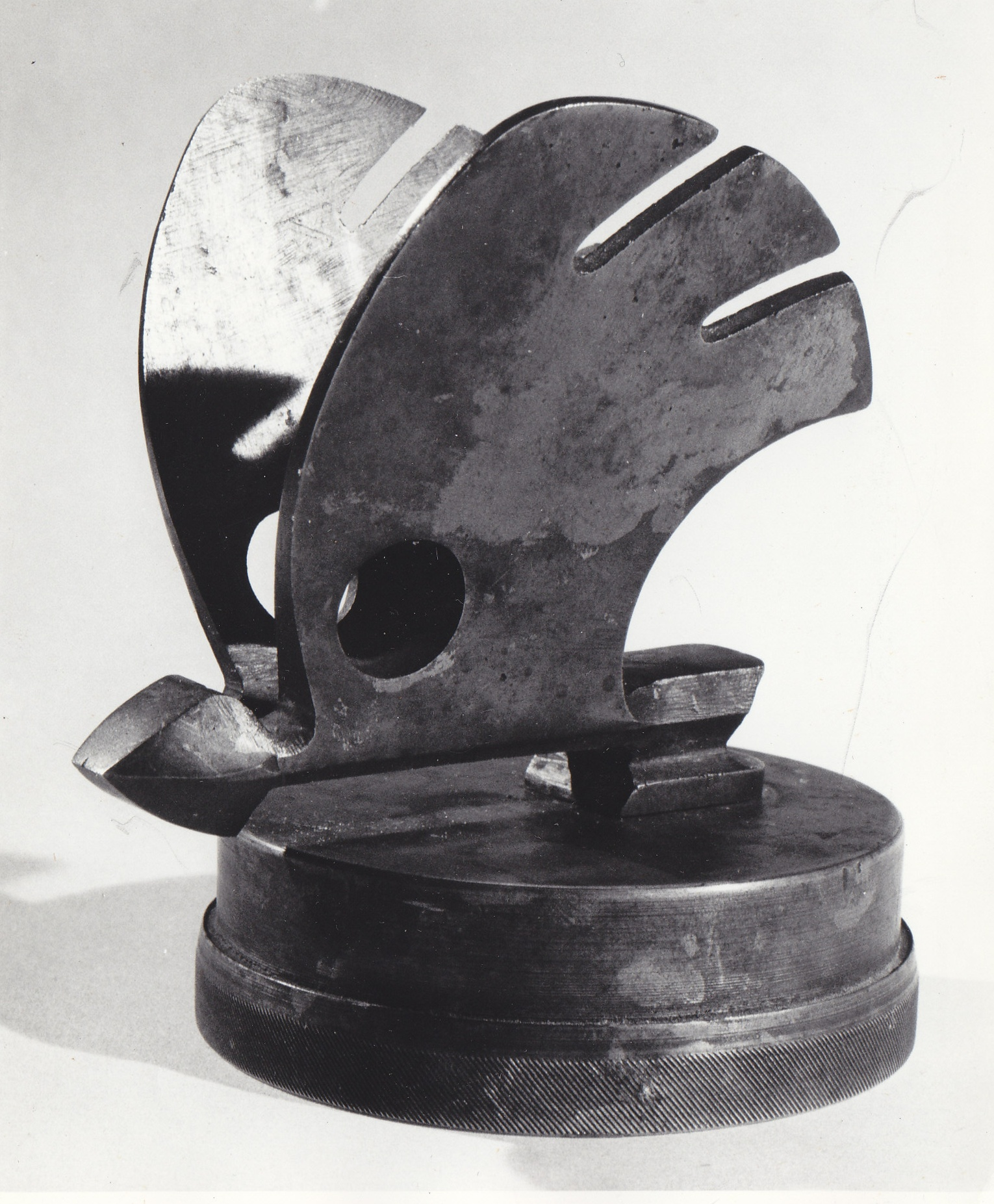 The first prototype of the Skoda emblem, the "Winged Flying Arrow" created by František Michl (design) and Vladimír Bretschneider (realisation). Brass, cca 1923, private collection.